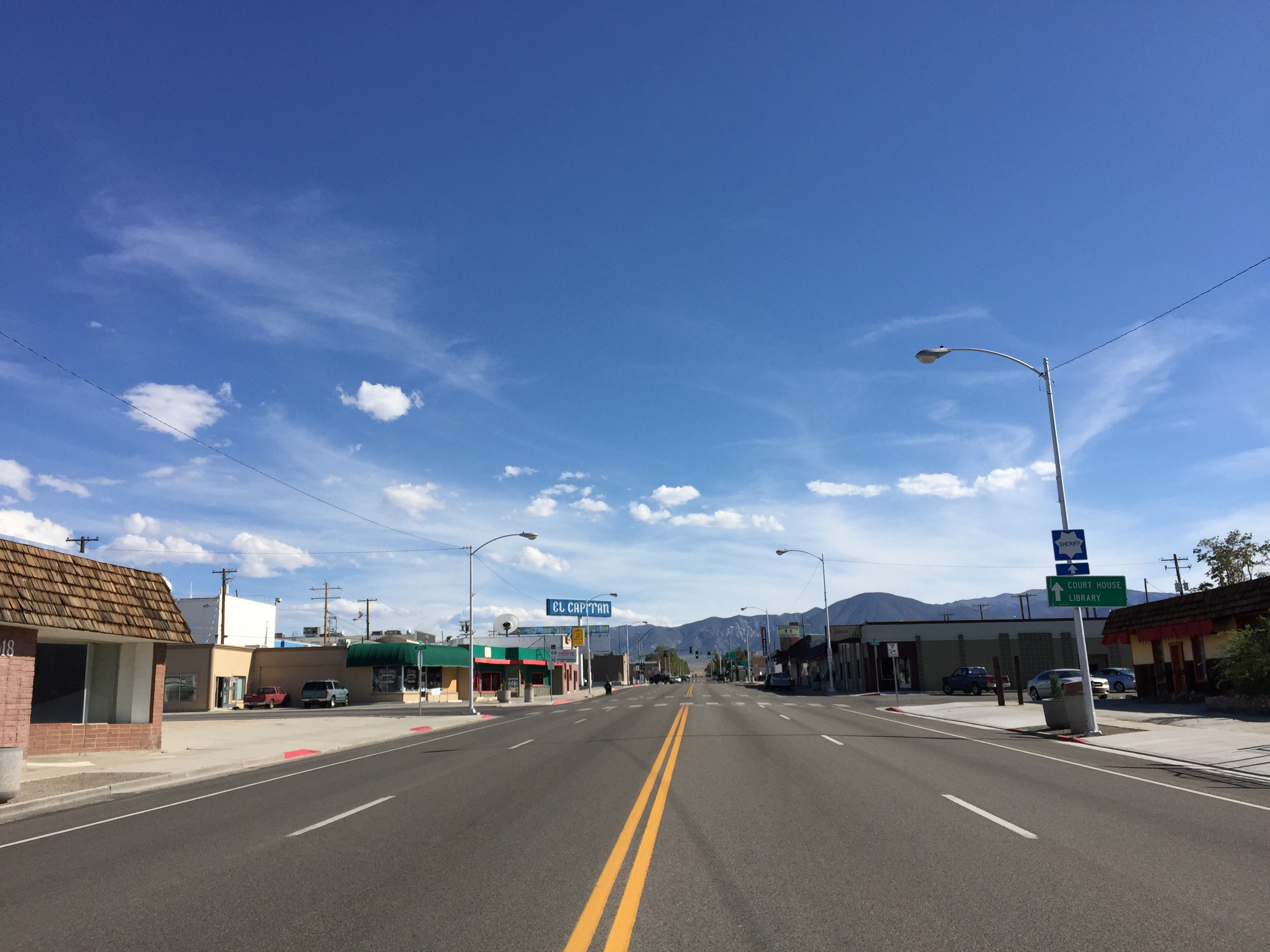 View south along E Street (U.S. Route 95) near 6th Street in Hawthorne, Nevada